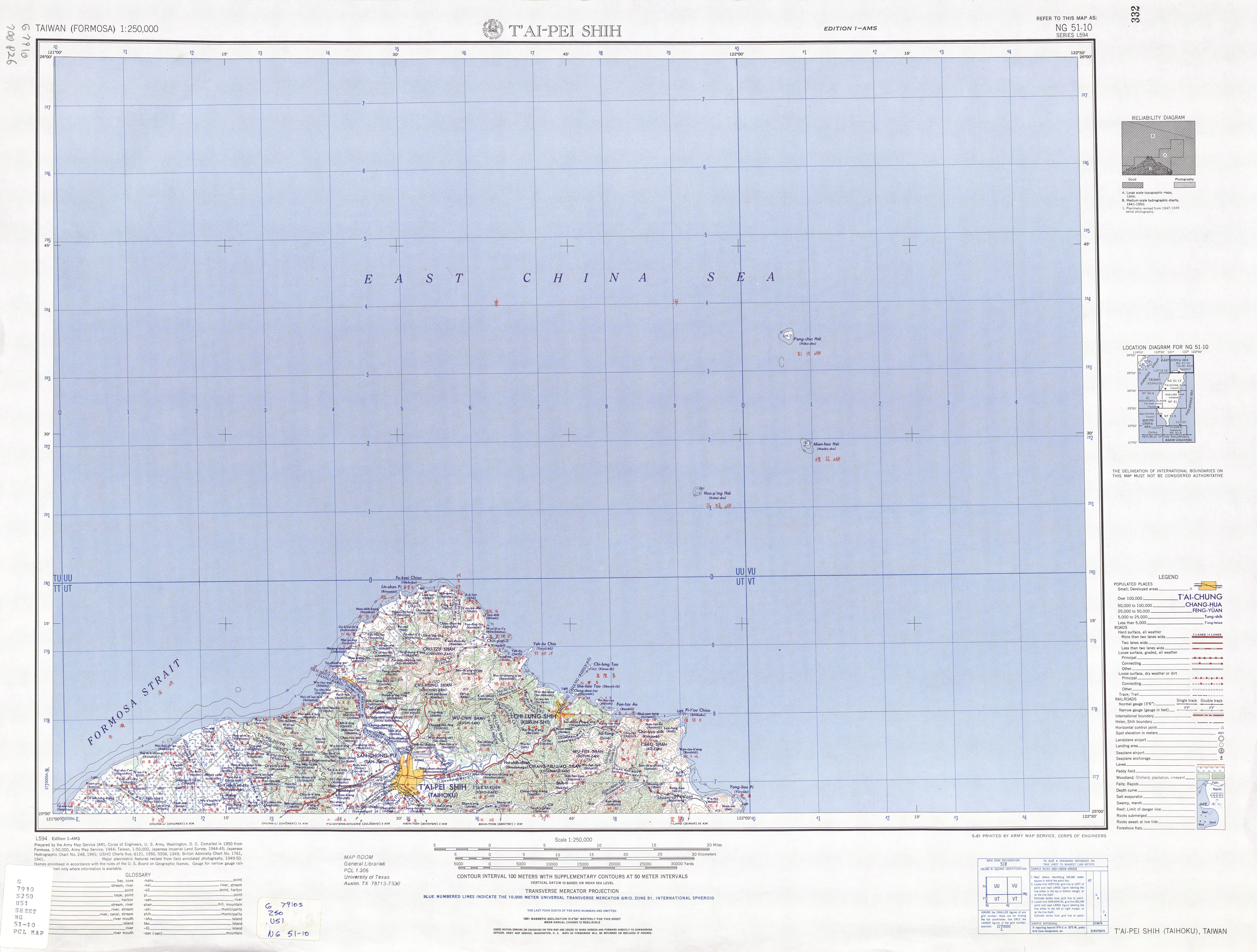 Map of the Taipei (T’ai-pei Shih, Taihoku) area of Taiwan, from the Tawian AMS Topographic Maps series